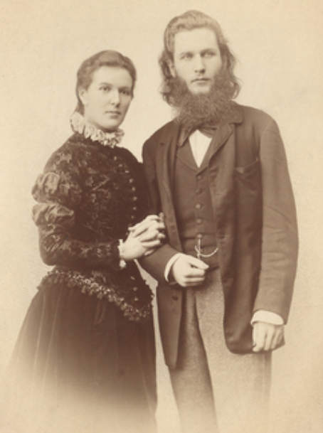 Austrian feminist Marie Lang with her first husband, Theodor Köchert, to whom she was married between 1880/1 and 1884